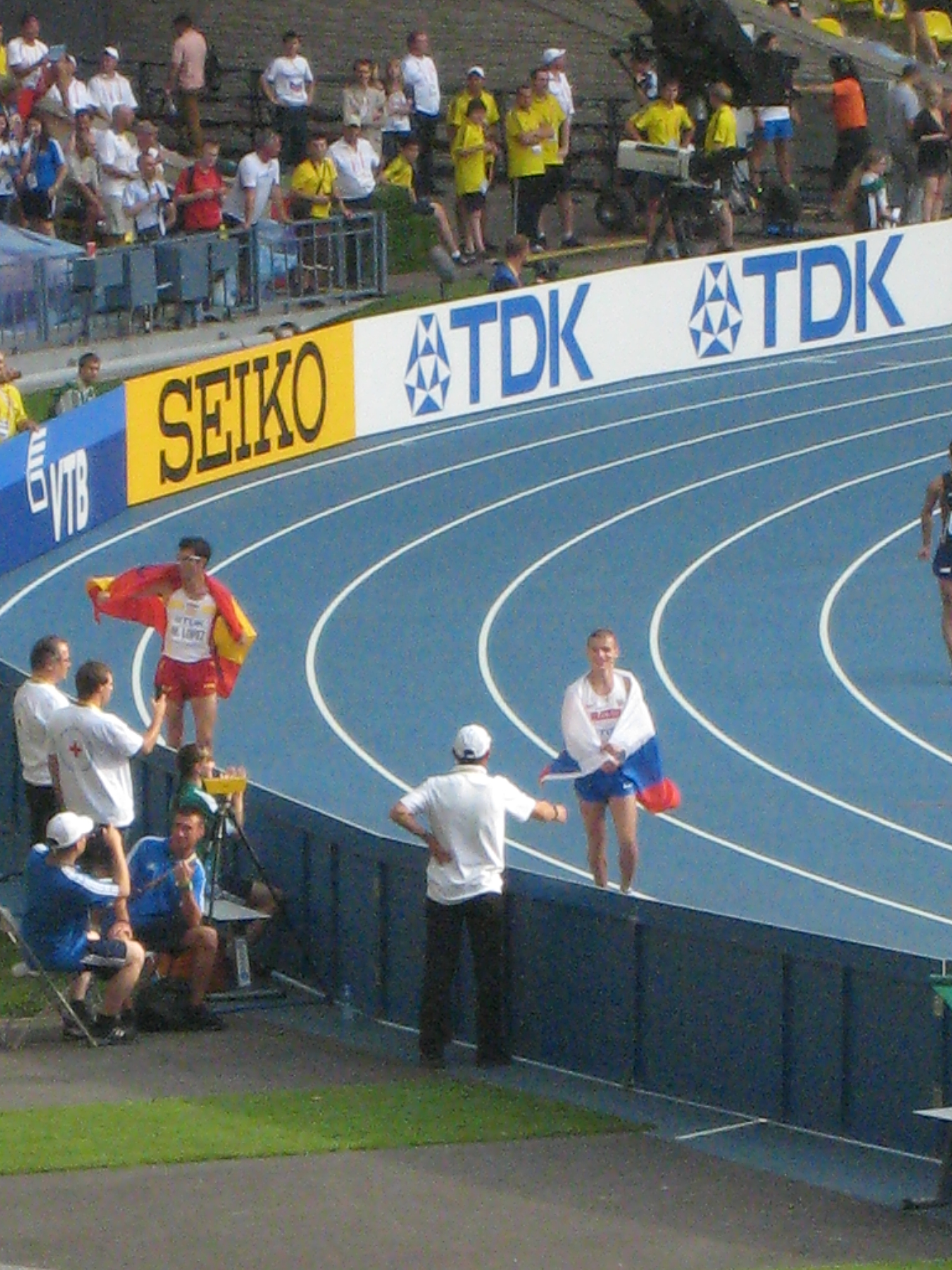 2013 IAAF World Championships in Moscow. 20 km walk men. Miguel Ángel López and Aleksandr Ivanov